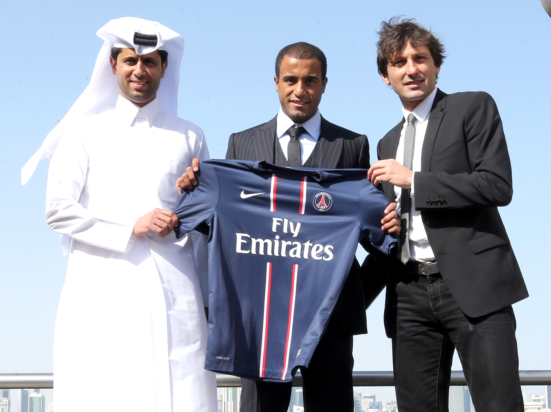 Nasser Al-Khelaïfi, Lucas and Leonardo